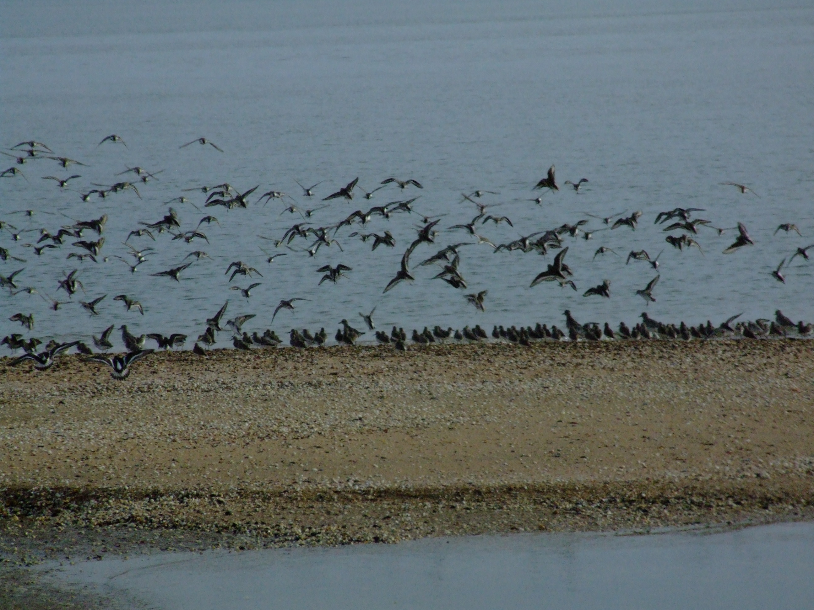 The extreme eastern point of Isle of Sheppey Kent is called Shell Ness. Oystercatchers and other waders at the high tide line in English Nature High Tide Wading Bird Roost, The Swale. This view is over the North Sea.